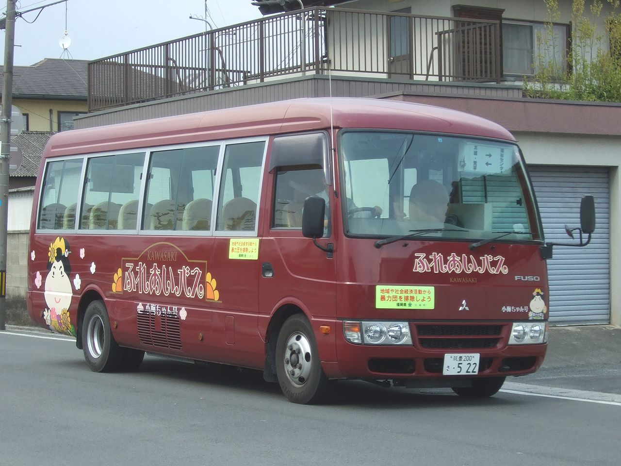 "Fureai Bus", Kawasaki Town community bus. 川崎町コミュニティバス「ふれあいバス」